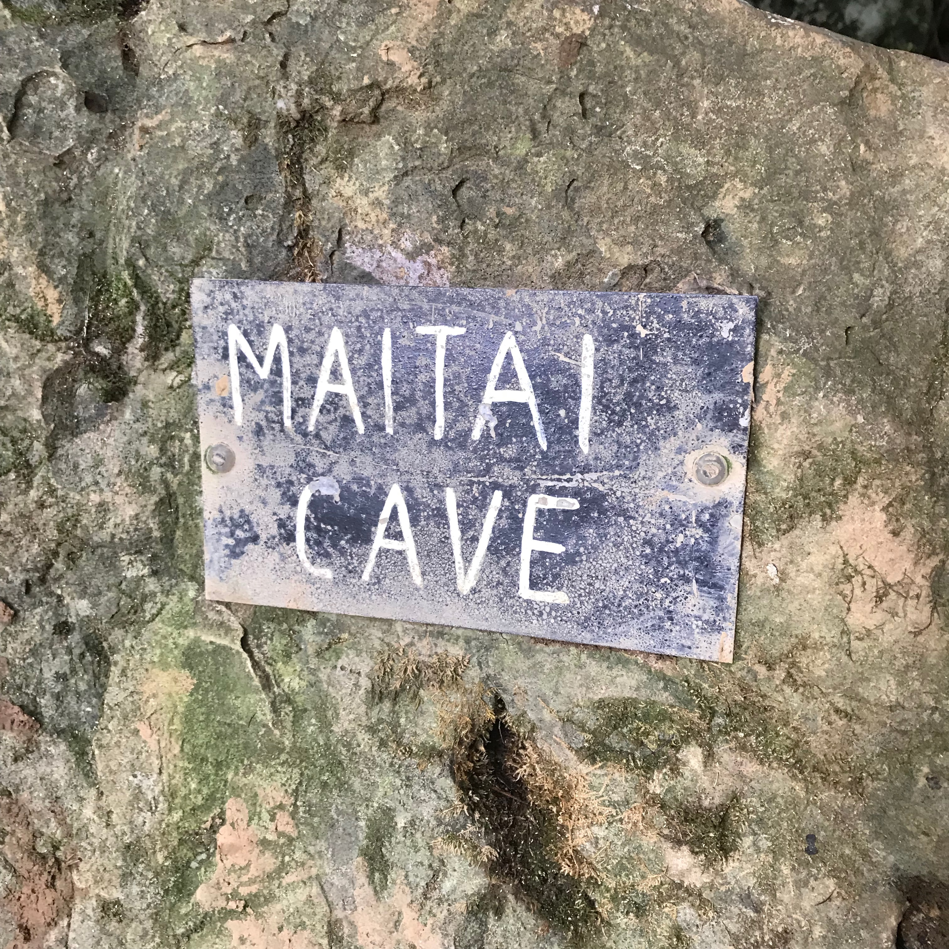 Entrance to Maitai Cave, Bryant Range, New Zealand